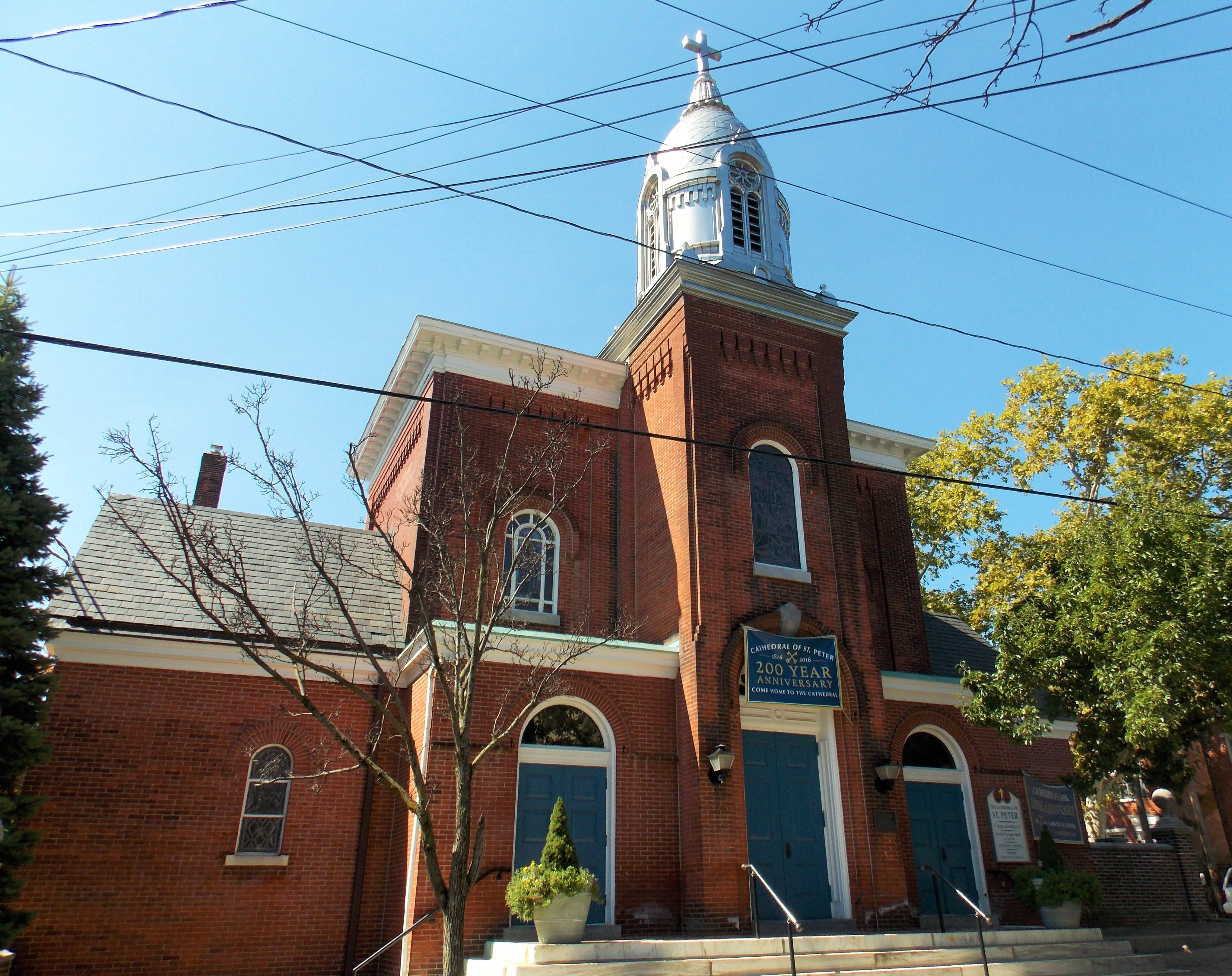 The Cathedral of St. Peter in Wilmington, Delaware.